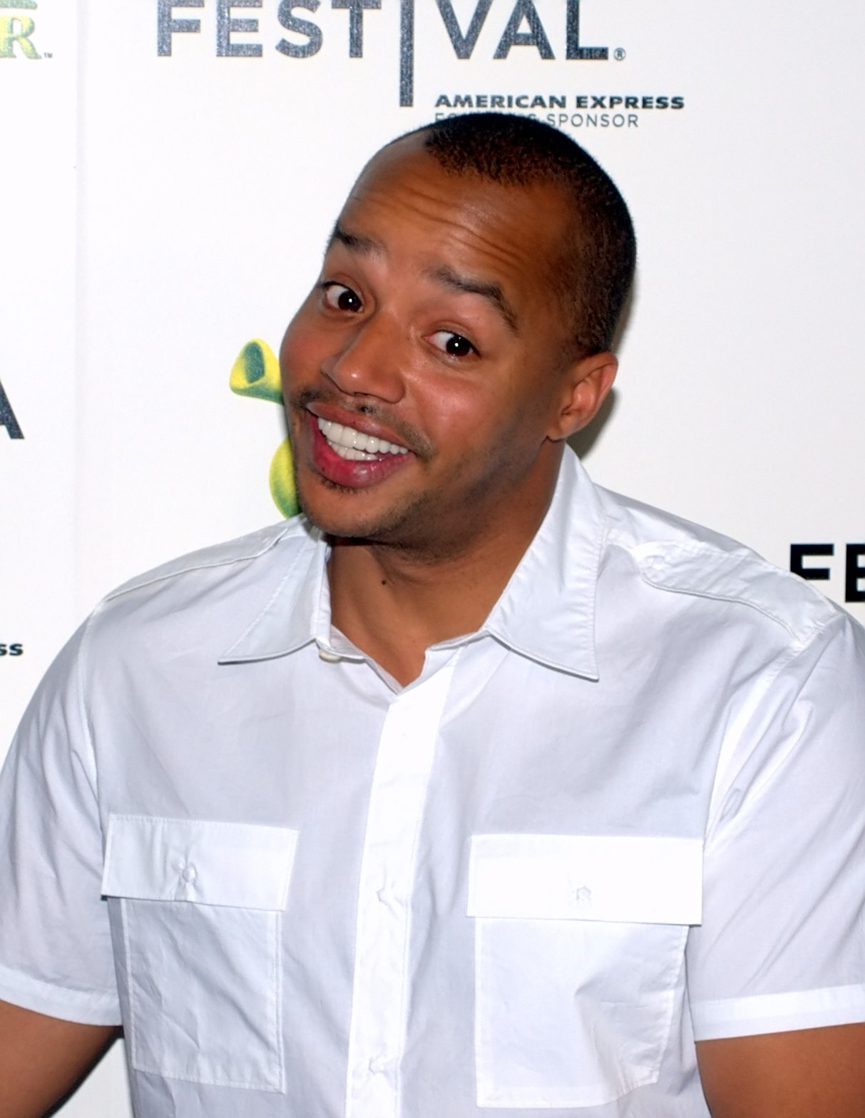 Donald Faison at the 2010 Tribeca Film Festival.